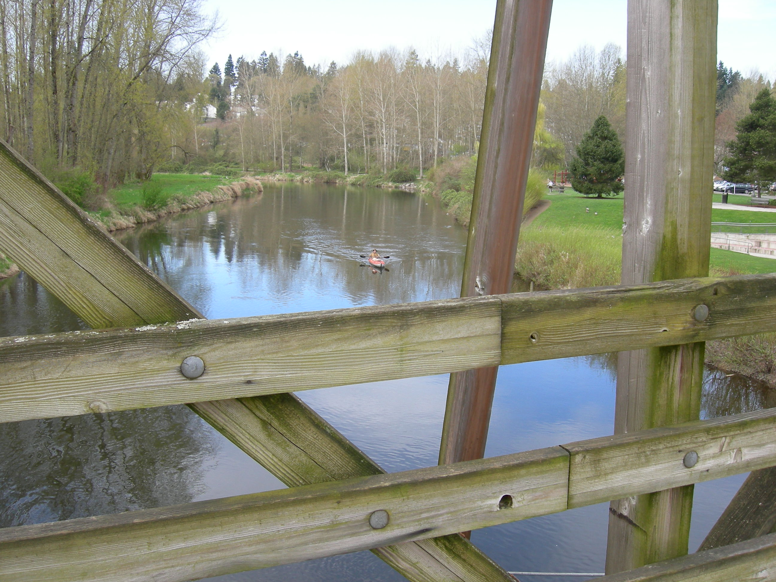 Sammamish River, Bothell, Washington, seen from the bicycle/foot bridge at Bothell Landing. Kayaker near center of image is kayaking upstream.